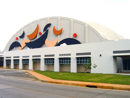 Terminal of the Rafael Hernandez Airport in Aguadilla in Puerto Rico